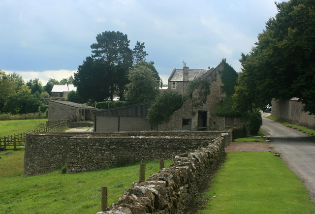 Hyde's Lane, Cold Ashton Cold Ashton is a small village approximately 3 miles north of Bath, off the Kingswood to Chippenham road, the A420. The village is a small but visually attractive settlement set upon an exposed position on the edge of the Cotswold escarpment. The village street commands magnificent views over the Wiltshire Downs to the east and the steep St Catherine's Valley to the south. The above was copied from